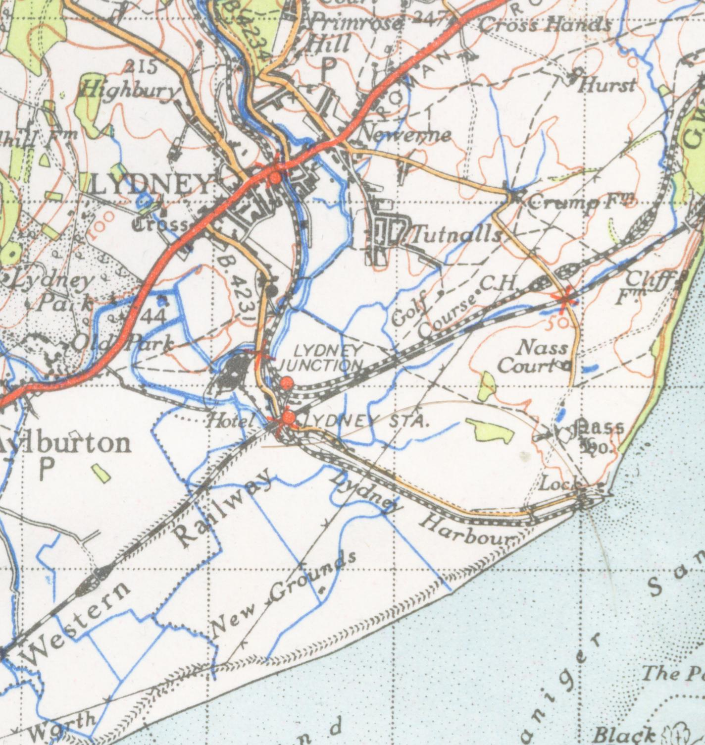 Map of Lydney from 1946. Scale 1 inch to the mile 600DPI Sheet 156